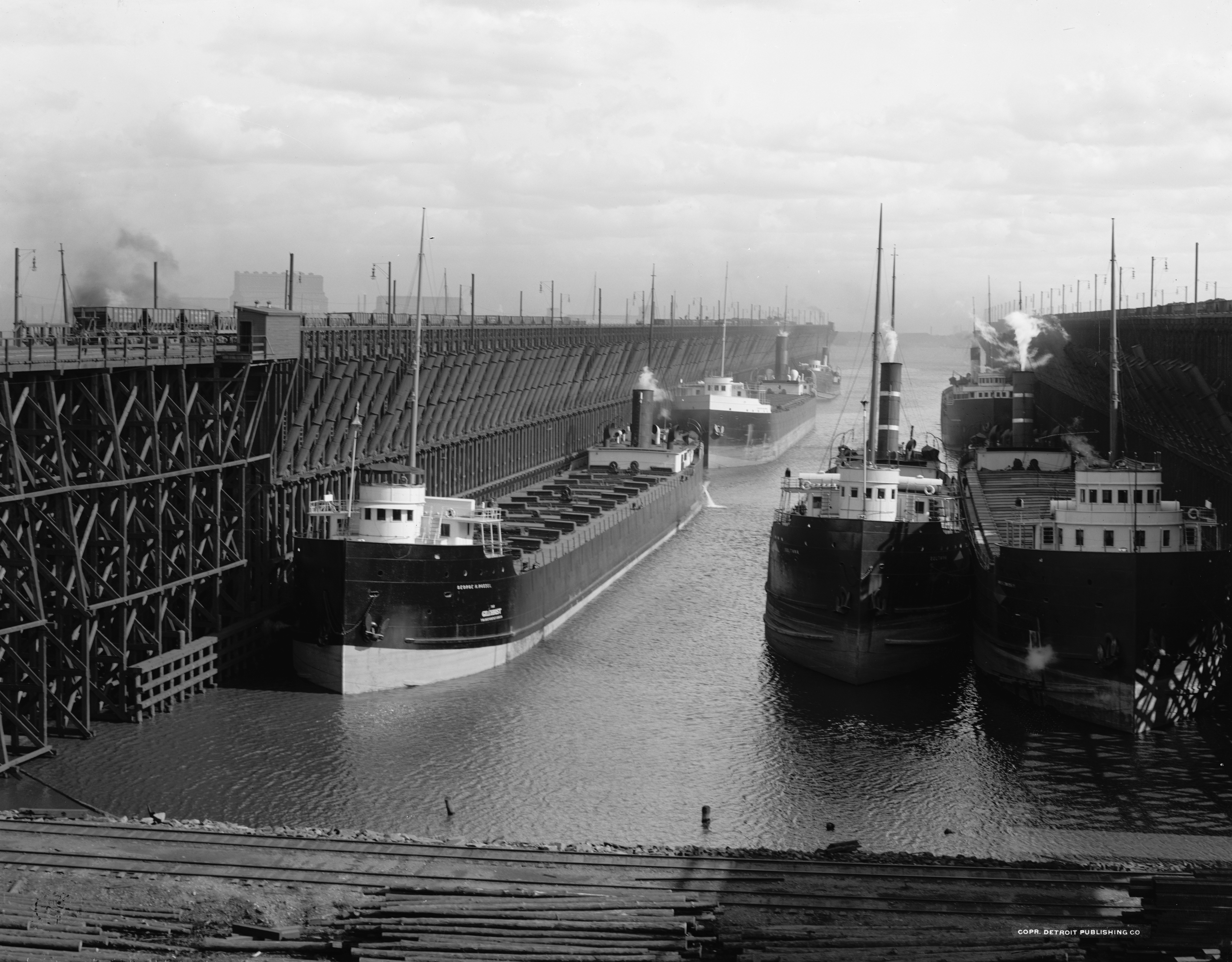 Ore docks of the Duluth, Missabe and Northern Railway loading ships in Duluth, Minnesota. (Ship left front is George H. Russel launched 1905 in Ecorse, Michigan)